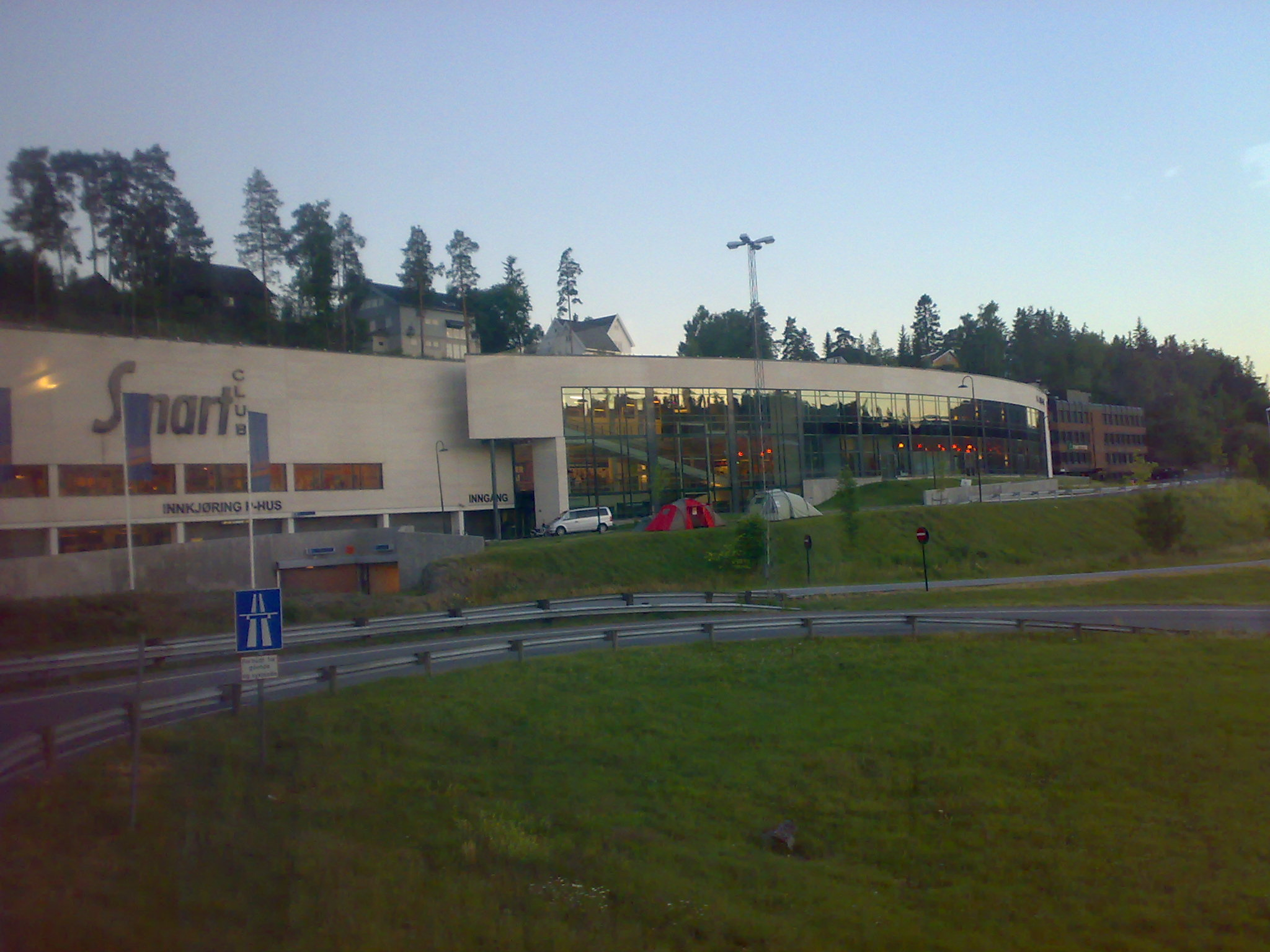 Smart Club, Baerum, Norway